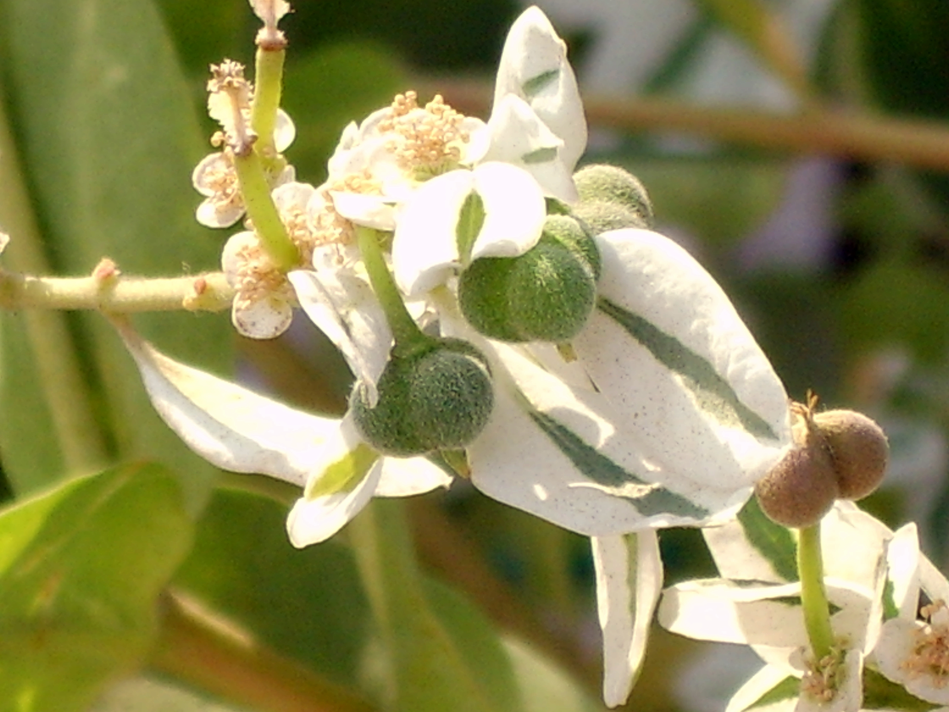 Euphorbia marginata